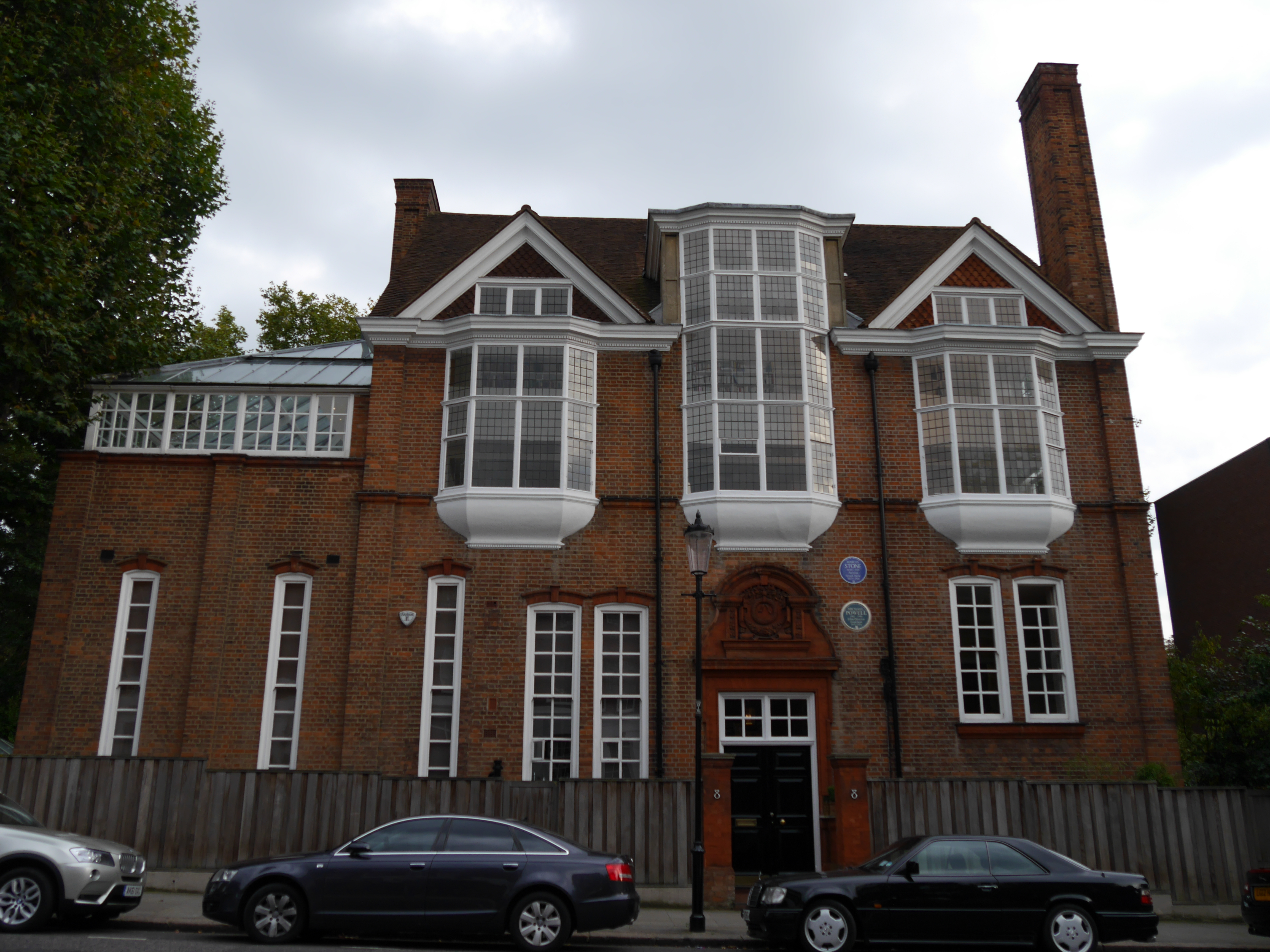 8 Melbury Road W14 Wikidata has entry Q4645237 with data related to this building.